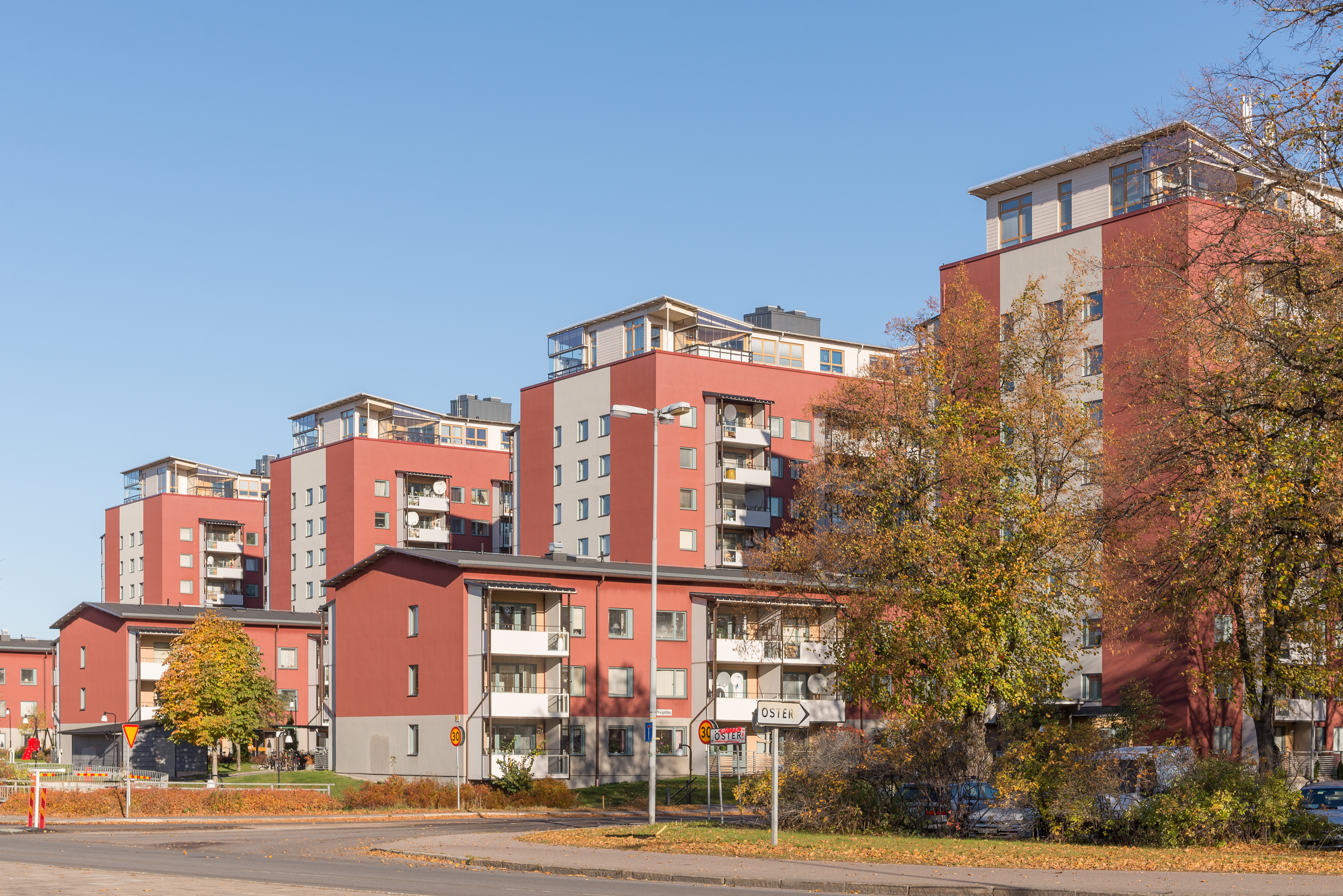 Buildings in Öster, Gävle.